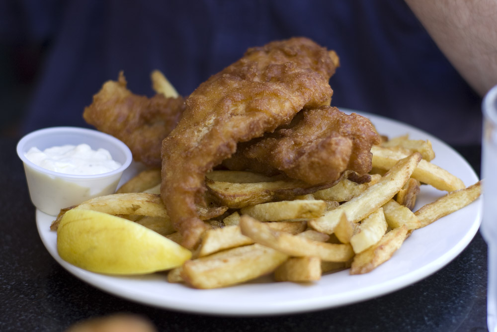 Cod and chips in Horseshoe Bay, B.C., Canada